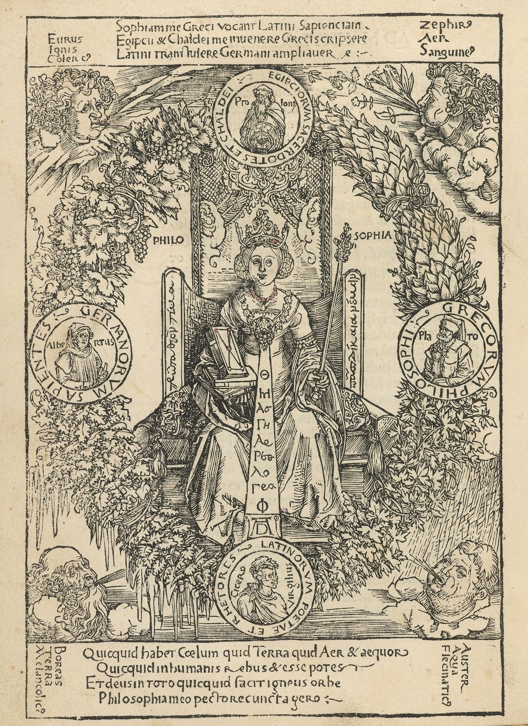 Woodcut of "Philosophia", signed with the monogram of Albrecht Dürer. From Qvatvor libri amorvm secvndvm qvatvor latera Germanie feliciter incipivnt, 1502, by Konrad Celtis ("Conrad Celtes"), 1459-1508. Typ 520.02.269, Houghton Library, Harvard University